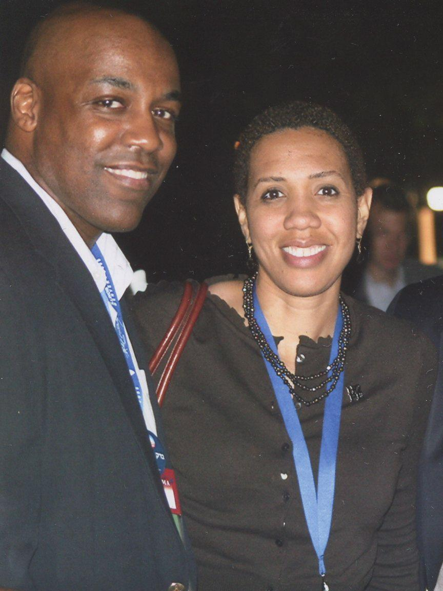 Kali and Kwame Raoul at w:2008 Democratic National Convention